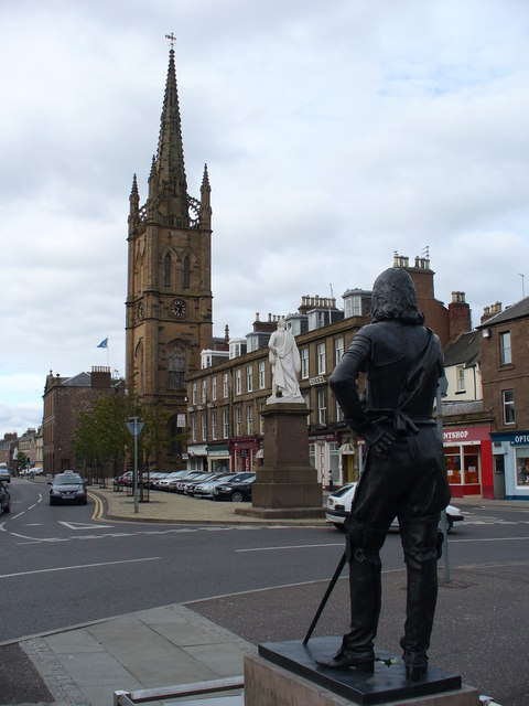 Montrose and The Steeple A new statue of Graham Claverhouse, Marquis of Montrose, looks north along Montrose High Street towards the steeple. To some, he was known as "Bluidy Clavers". Note: this is the photo caption given at the source, however, the Marquis's name was James Graham, not Claverhouse